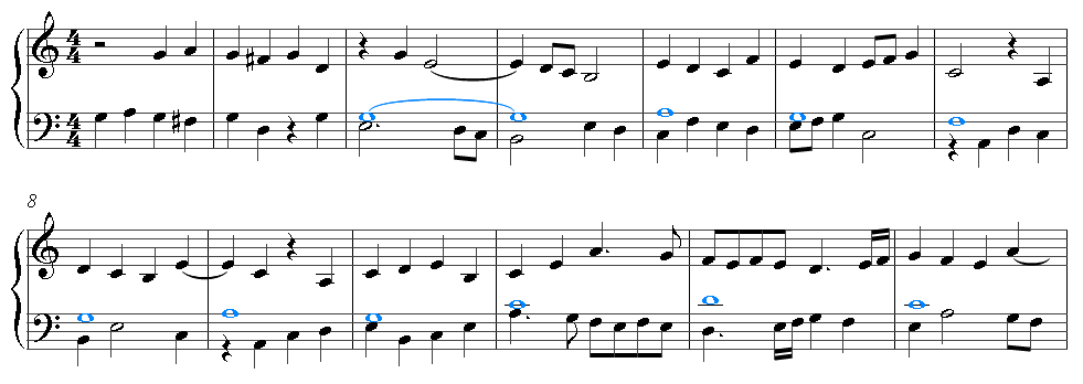 First bars of Veni Creator, 3e verset from Hymnes (1624) by Jean Titelouze (c.1562/3-1633). Made using Sibelius 4 by Jashiin. The music quoted is in the public domain, and the image is hereby released into the public domain by Jashiin.